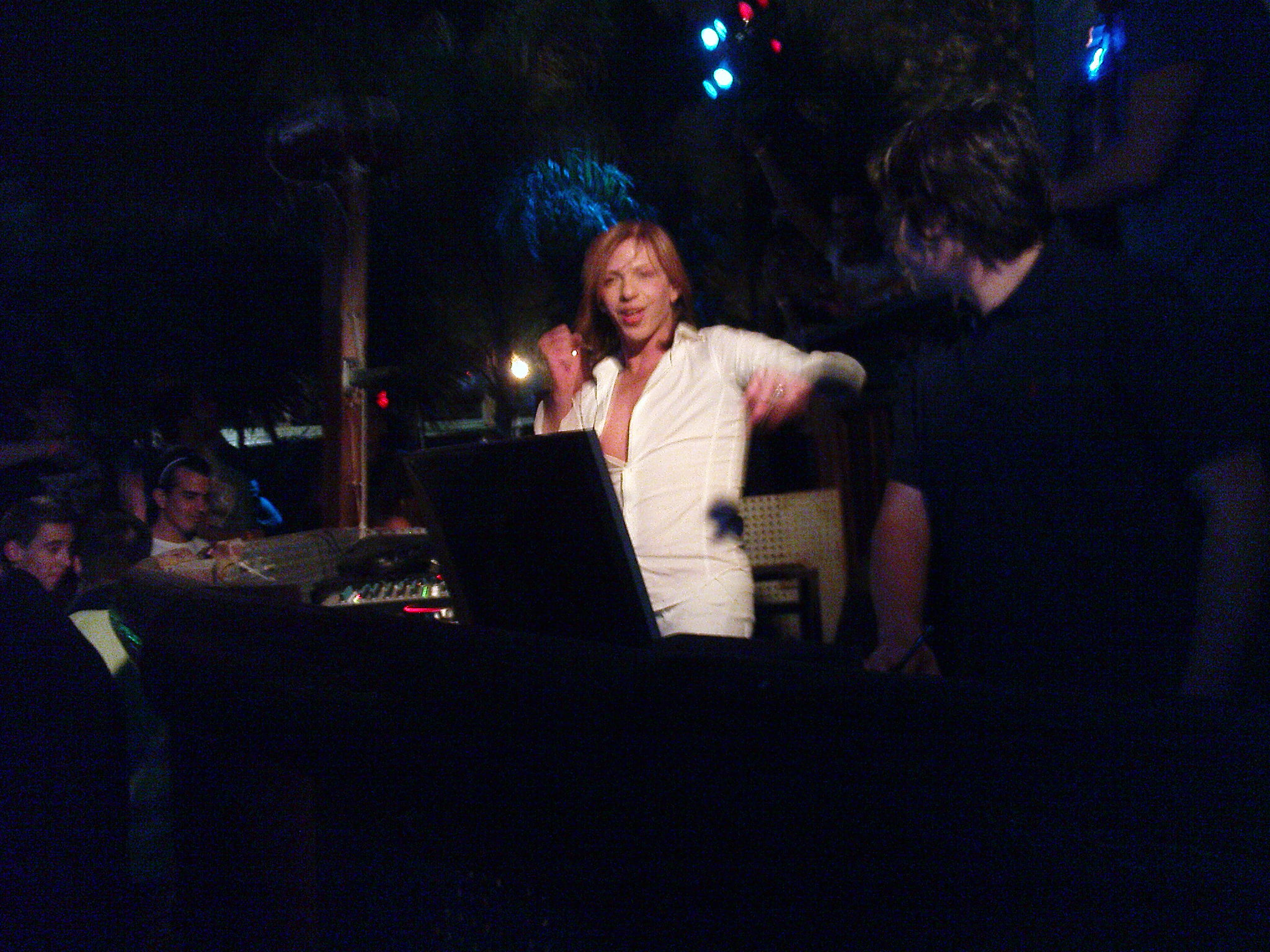 OFFER NISSIM